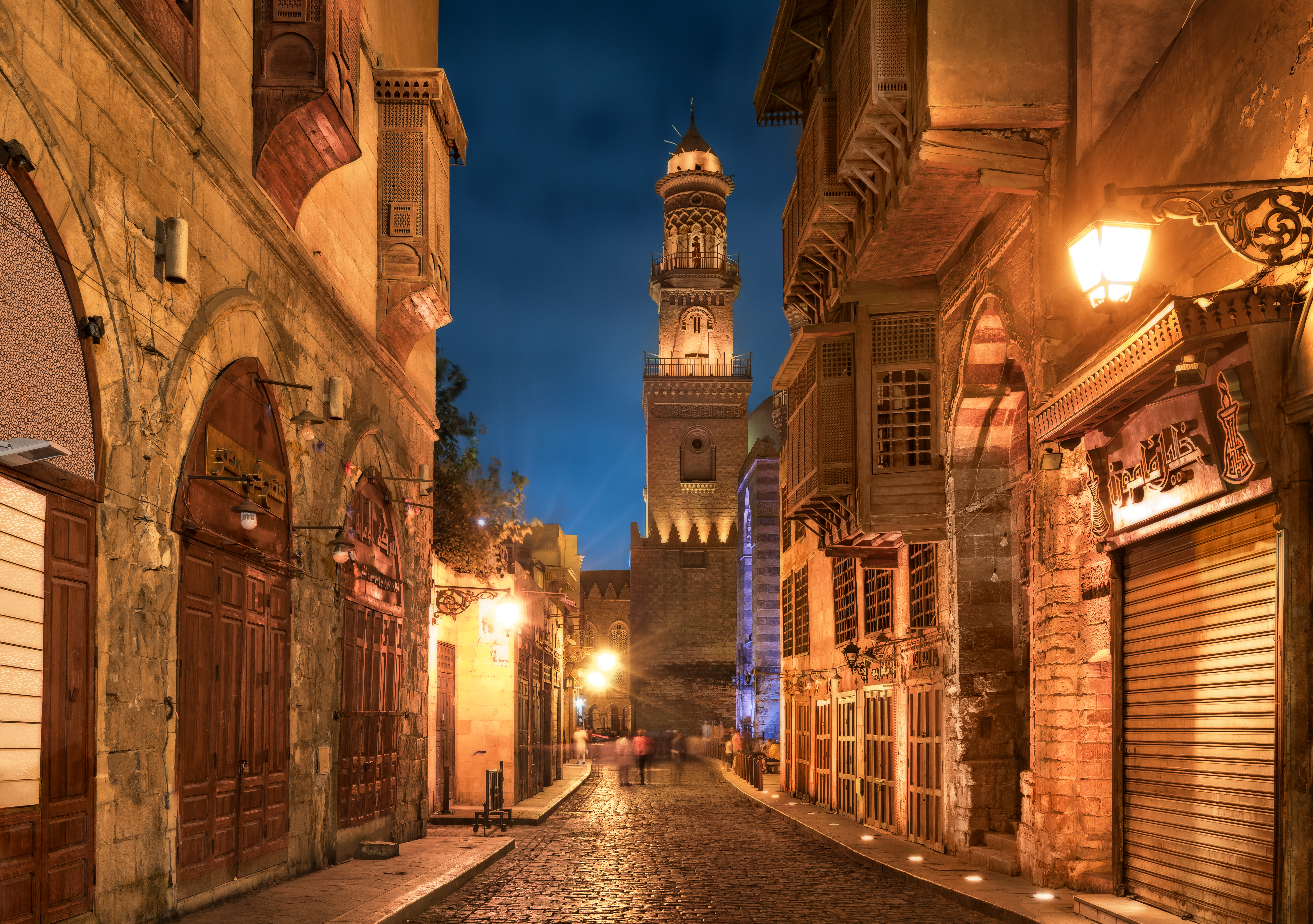 Old cairo between history and future.jpg Essam Azzam St. (Shariʻa al-Muizz li-Deen Illah) (30°02′ 48" N 31°15′ 36"E) in Islamic Cairo, Egypt is one of the oldest streets in Cairo, approximately one kilometer long. A United Nations study found it to have the greatest concentration of medieval architectural treasures in the Islamic world.[1] The street (shariʻa in Arabic) is named for Al-Muʿizz li-Deen Illah, the fourth caliph of the Fatimid dynasty. It stretches from Bab Al-Futuh in the north to Bab Zuweila in the south. Starting in 1997,[2][3] the national government carried out extensive renovations to the historical buildings, modern buildings, paving, and sewerage to turn the street into an "open-air museum". On April 24, 2008, Al-Muizz Street was rededicated as a pedestrian only zone between 8:00 am and 11:00 pm; cargo traffic will be allowed outside of these hours.[4] The northern part of the street extends from the Al-Hakim Mosque in the north to the Spice Market at Al-Azhar Street and includes the antiques markets section, Al-Aqmar Mosque (one of the few extant Fatimid mosques), the Qalawun complex, and several well preserved medieval mansions and palaces.